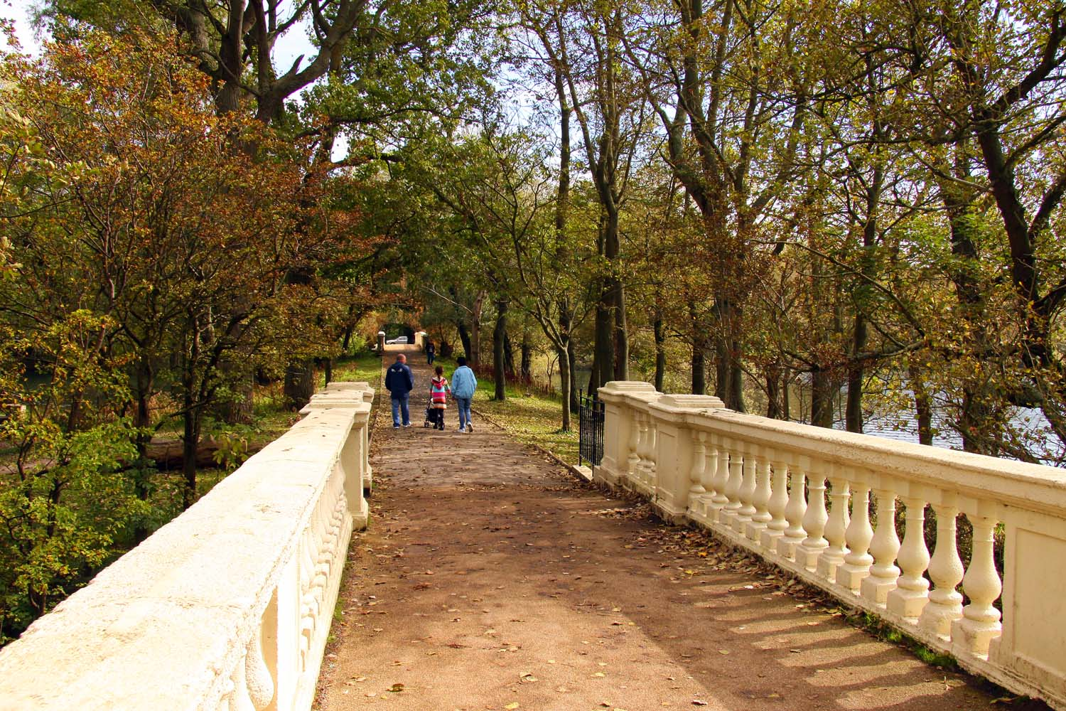 Footpath over a bridge in Stanley Park